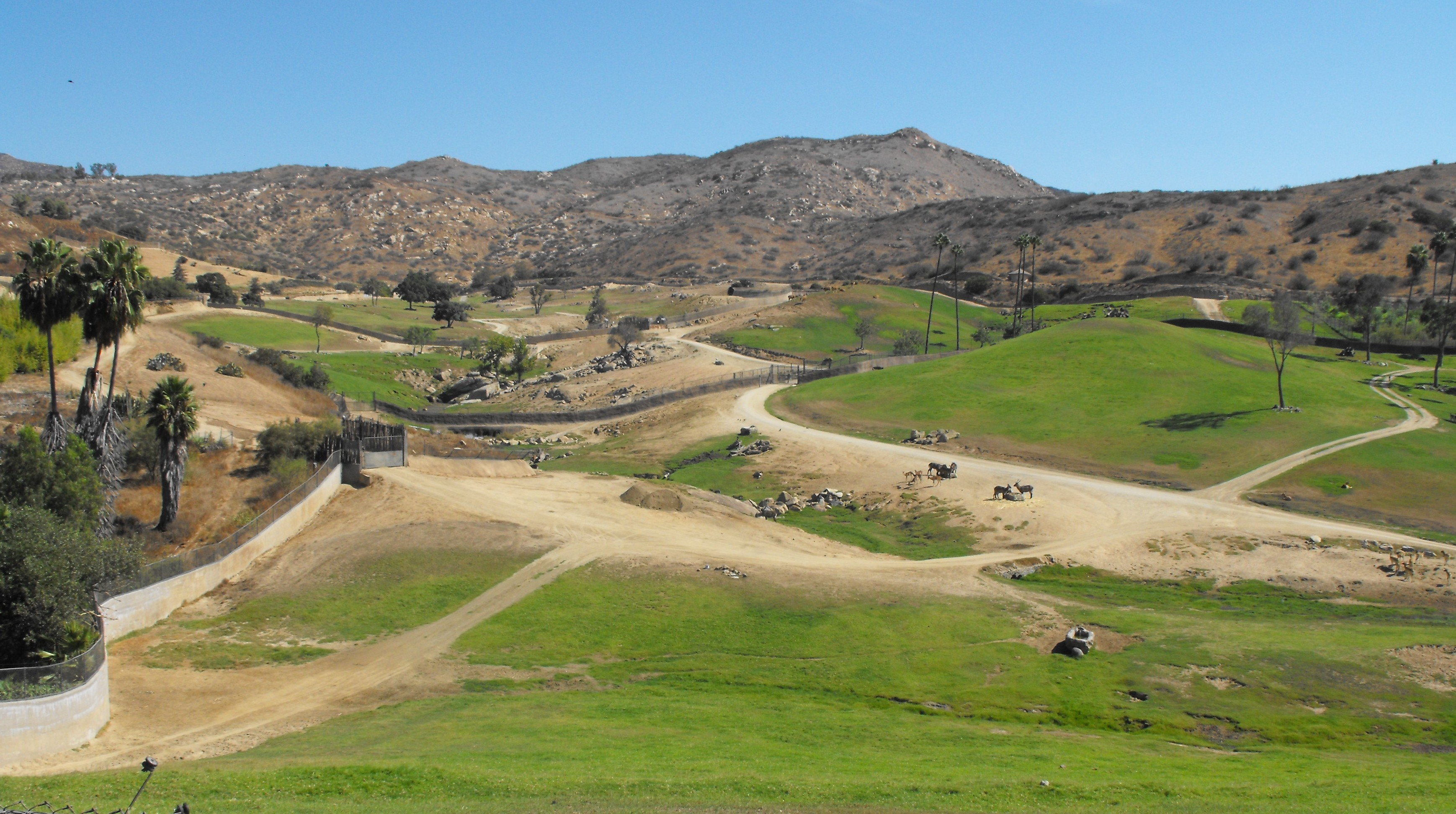 View of the San Diego Zoo Safari Park, formerly the San Diego Wild Animal Park Some ungulates down there.